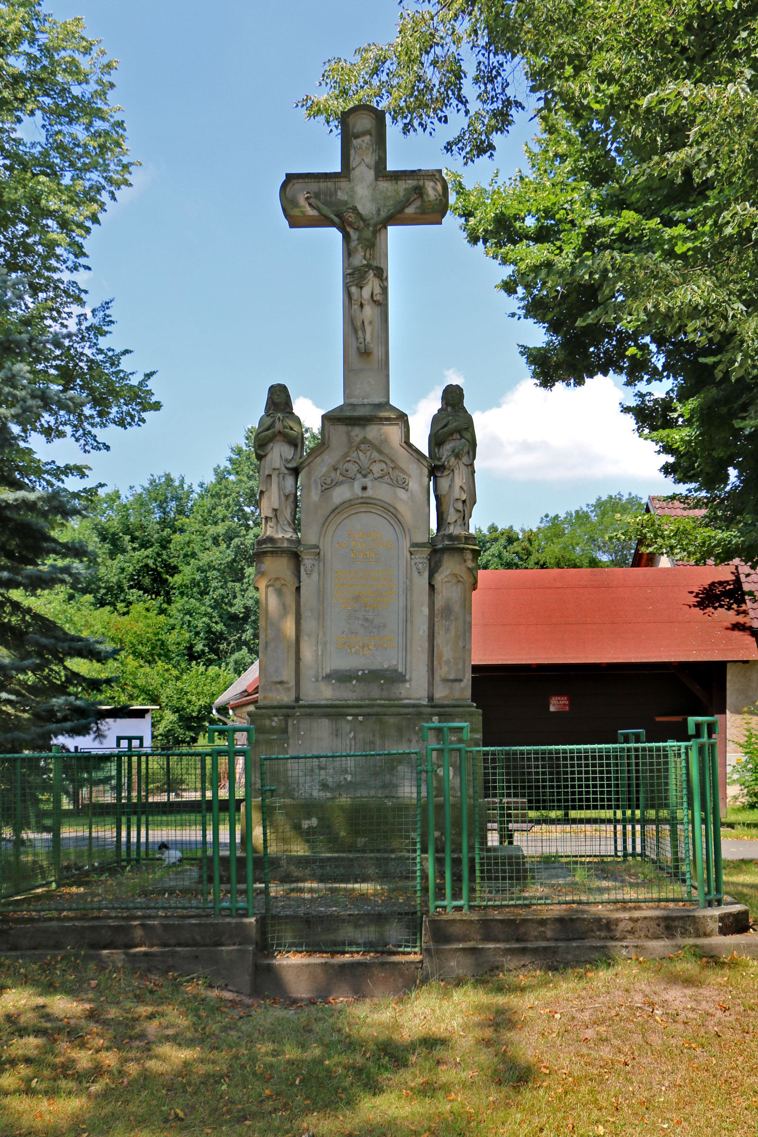 Crucifix in Štěnkov, part of Třebechovice pod Orebem, Czech Republic.